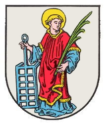 Coat of arms of Bobenheim till 1969